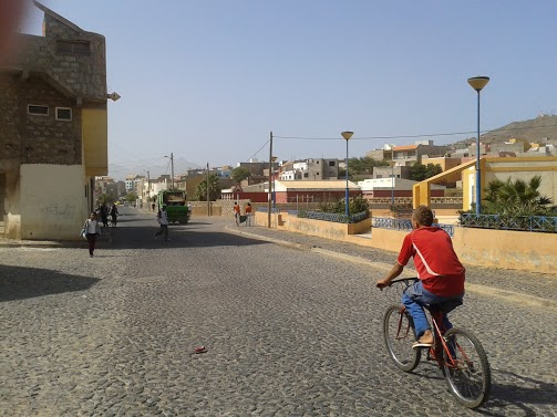 Bike on São Vicente Island, Cape Verde